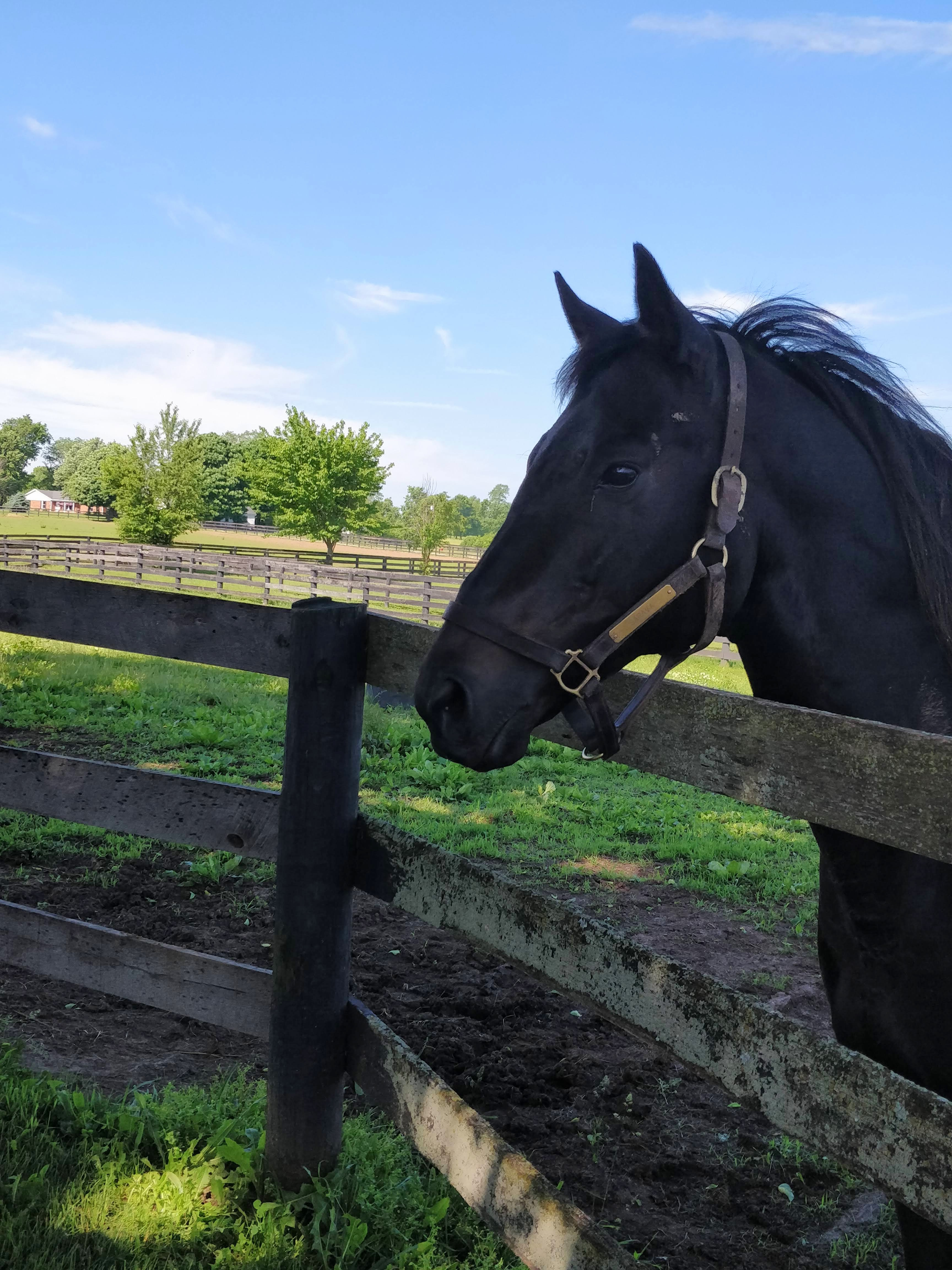 2002 Belmont Stakes winner at Old Friends Wants all of your carrots. Feel free to use this photo however you like, just attribute . Thanks!